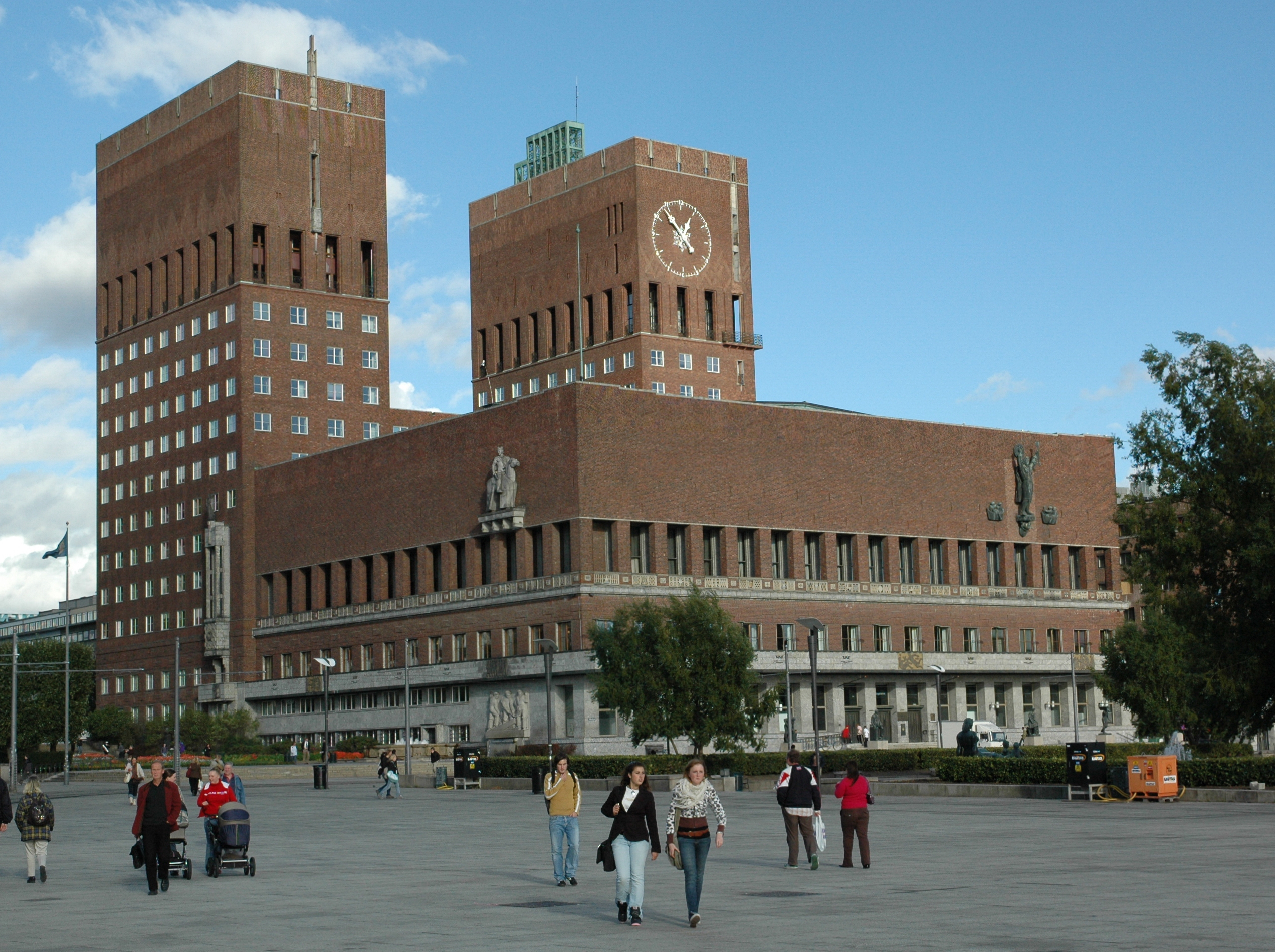 The City Hall, Oslo, Norway. Famous for murals from the 1930'ies